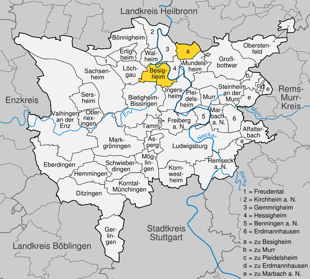 position of Besigheim within distict of Ludwigsburg, Baden-Württemberg, Germany